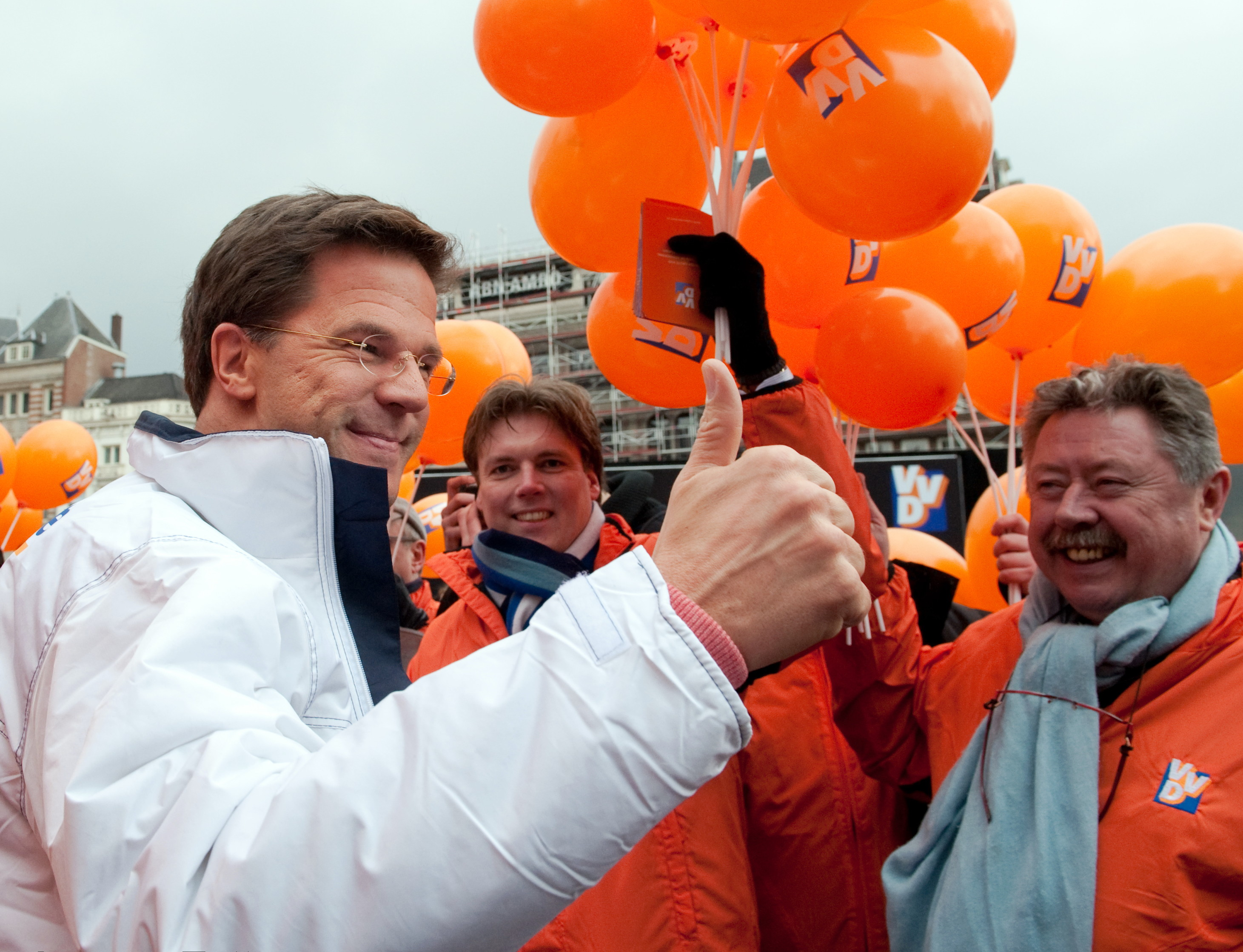 VVD-leader Mark Rutte campaigning in Amsterdam during the local elections.